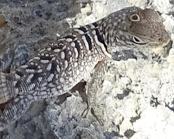 Madagascar Spiny Tailed Iguana. At Tsimanampetsotsa Nature Reserve, SW Madagascar